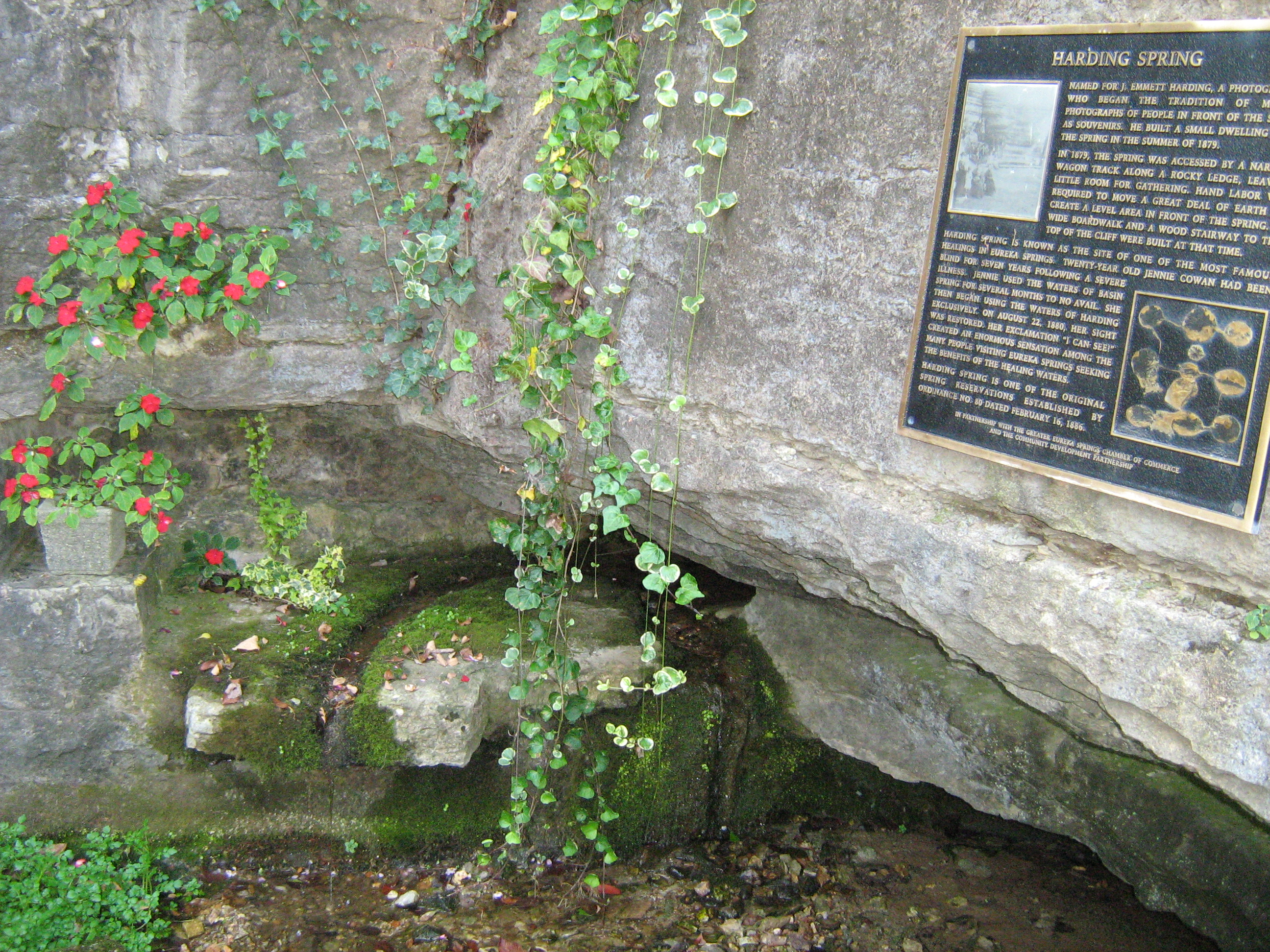 Harding Spring in Eureka Springs, Arkansas. Originally claimed to cure blindness.